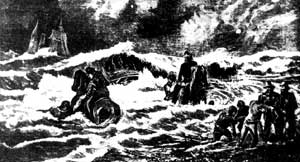 This image shows a drawing of the shipwrecking of the SS Georgette in 1876. The drawing originally appeared in the Illustrated Sydney News on 3 February 1877. It is incorrect in a number of details.